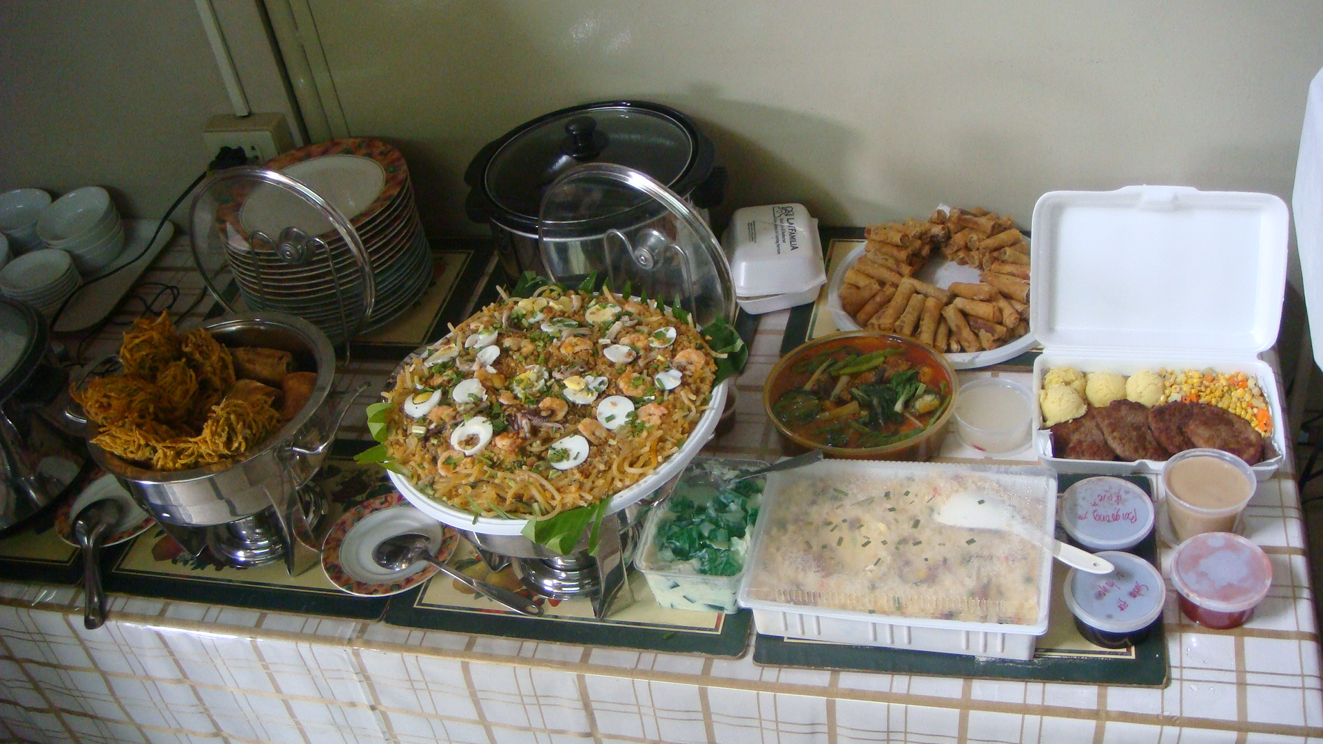 Cuisine of the Philippines prepared by Baliuag, Bulacan's prime restaurant, La Famila